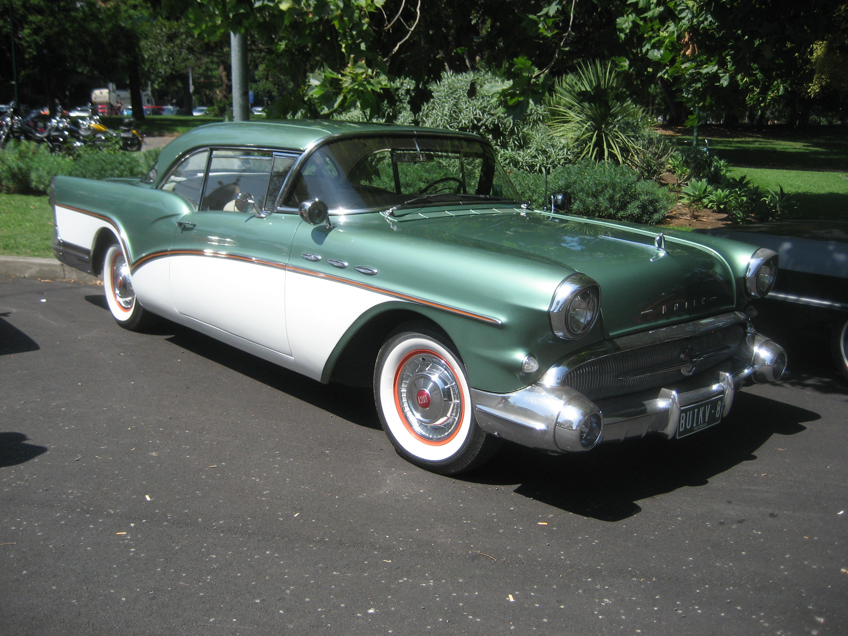 Series 40 Special; Basic SWB. The Specials got 3 Ventiports whereas the Upmarket models got 4 Engine 364 cu in V8